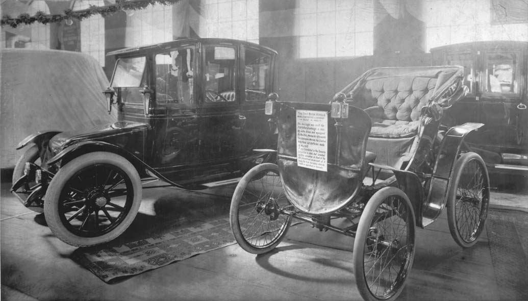 Electric car and first motor vehicle built in Canada (1893) at auto show, Toronto Armouries. (Toronto, Canada)